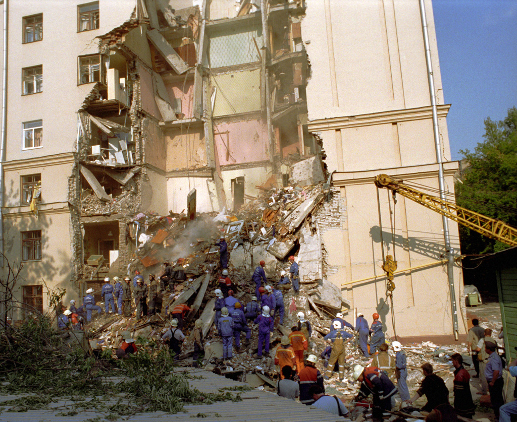 “Rescuers clean up apartment building rubble after a home gas explosion”. Rescuers cleaning up the rubble after a home gas explosion in one of the entranceways of an apartment building in Shcherbakovskaya Street.